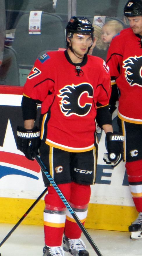 Calgary Flames forward Michael Frolik prior to a National Hockey League contest in Calgary.